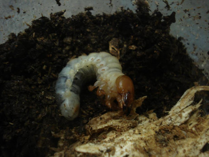 Third instar